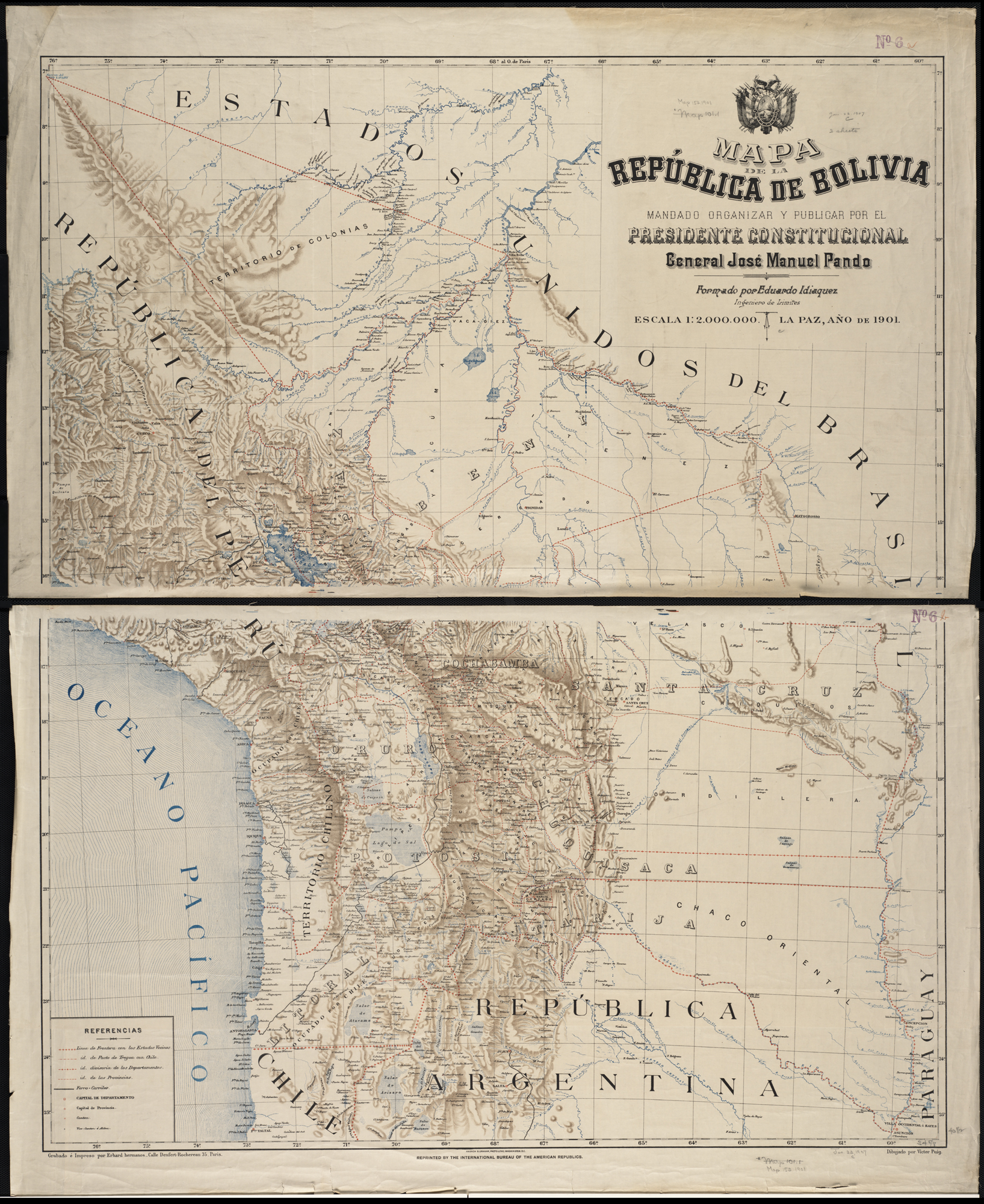 Zoom into this map at . Author: Idiaquez, Eduardo. Publisher: Grabado é impreso por Erhard Hermanos Date: 1901 Location: Bolivia Scale: Scale 1:2,000,000. Call Number: G5320 1901.I3